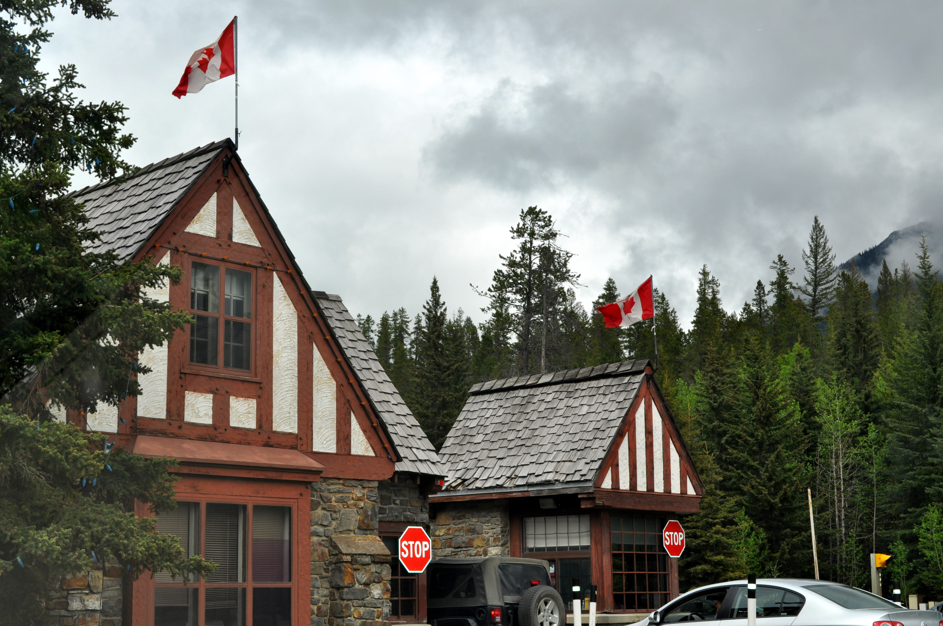 Entry fee that you have to pay for entering Banff National Park